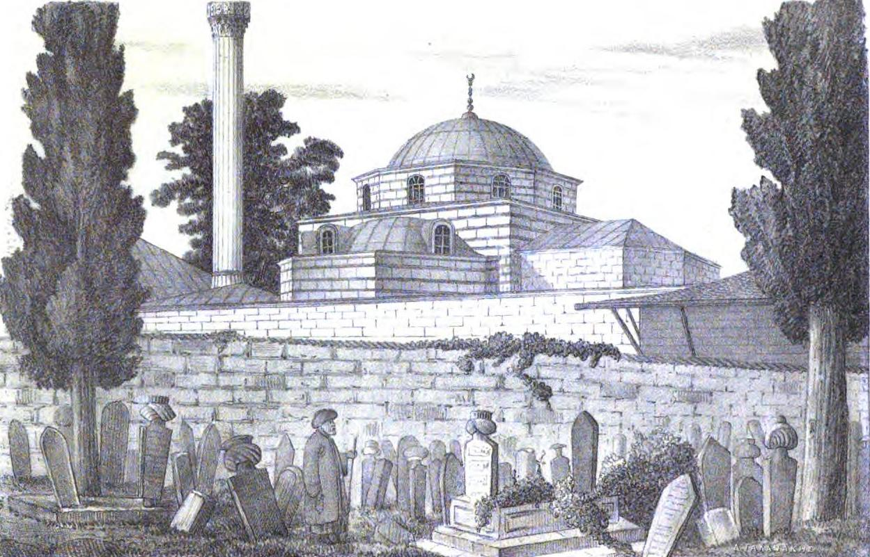 The Koca Mustafa Pasha Mosque, formerly the Byzantine Church of St Andrew in Krisei, from A. G. Paspates' Byzantinai meletai topographikai (1877) Author: Paspatēs, Alexandros Geōrgiou, 1814-1891. [from old catalog] Subject: Inscriptions, Greek Year: 1877 Possible copyright status: NOT_IN_COPYRIGHT Language: English Digitizing sponsor: Google Book contributor: Oxford University Collection: europeanlibraries